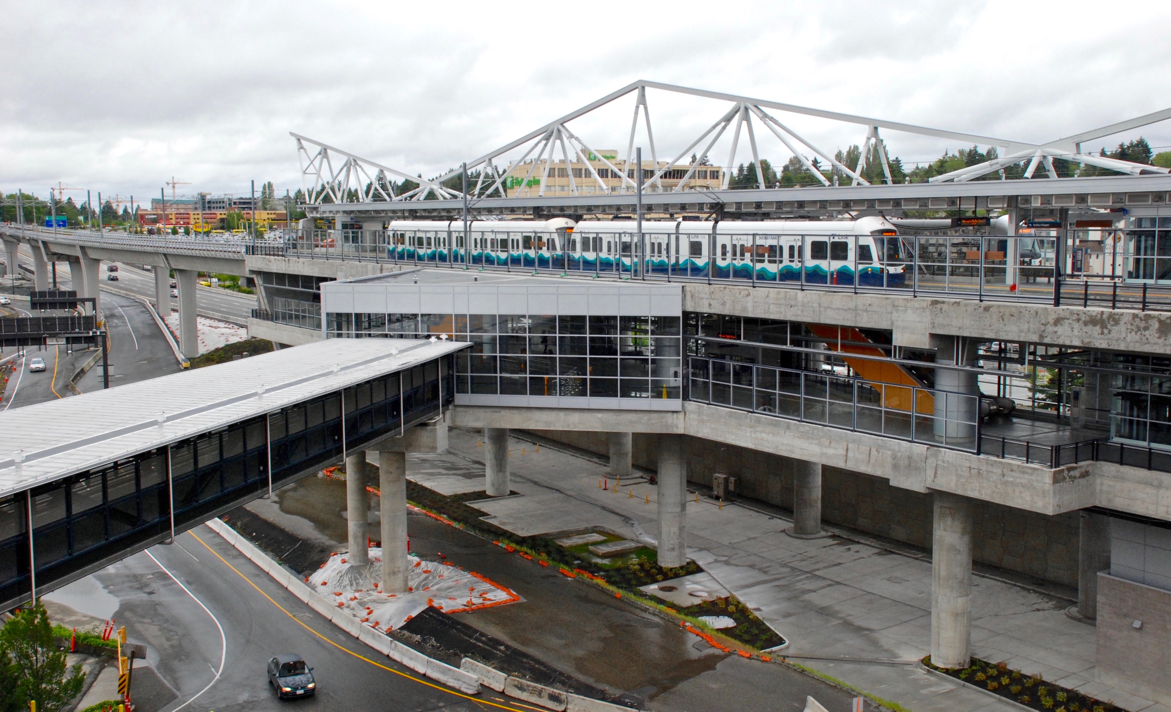 The SeaTac/Airport station of Sound Transit's Link light rail system, viewed from the adjacent parking garage, with a train at the southbound platform. At left is the pedestrian bridge that connects the station's mezzanine level to the parking garage and a walkway leading to the airport's main terminal.